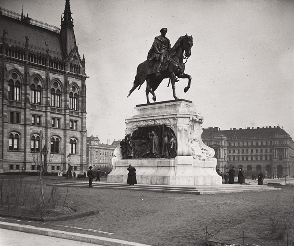 Statue of Graf Andrassy Gyula, Budapest, 1907